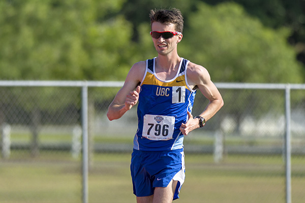 Photo of Canadian race walker Ben Thorne